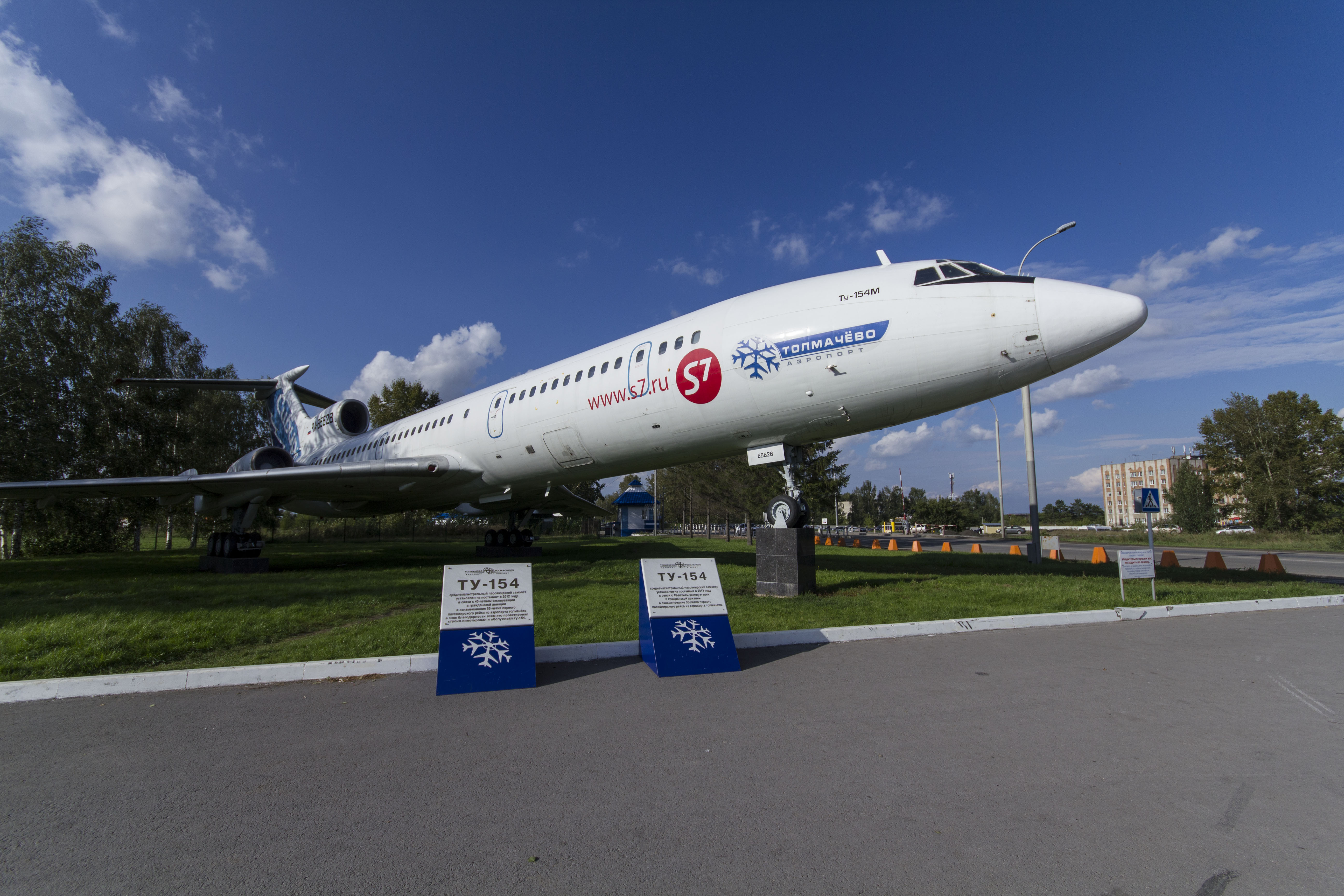 Tu-154 RA-85628 at Tolmachevo (Novosibirsk)